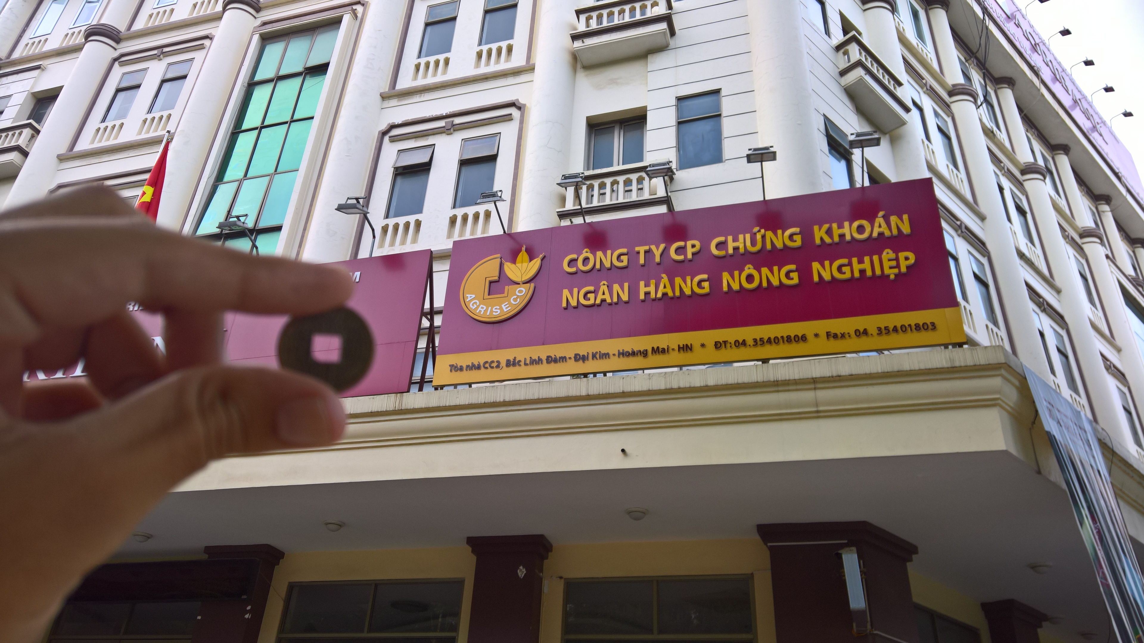 The logo of Agriseco, a securities trading company part of Agribank. The logo of this subsidiary is a cash coin which are often seen as “good luck 🍀 symbols” and are considered to be symbols of economic prosperity and growth; for this reason these coins are often used as the symbol of various Vietnamese and Chinese financial institutes and corporations. Cash coins were originally produced in China, and were subsequently introduced to Viet-Nam while it was a Chinese province. Cash coins have been produced and circulated under various Vietnamese dynasties until 1945 when they were demonetised, however in the modern era these coins are seen as “good luck 🍀 coins” and are still widely used in various temple ⛪ rituals, and hung in store windows. Many Vietnamese people still believe (as of 2017) in the supposed “magical effects” of these coins associating their image with wealth, for this reason cash coins may be found on the logo’s of various banks such as VietInBank, Ngan Hang Phuong Dong, LienViet PostBank, and MANY others. In the modern era cash coins still hold their place in Traditional Vietnamese Medicine and Daoistic practices such as Phong-Thuy. This image was originally taken by me (Donald Trung Quoc Don), proof here: TinEye, and Google Images. Taken with my Microsoft Lumia 950 XL with Microsoft Windows 10 Mobile 📱.